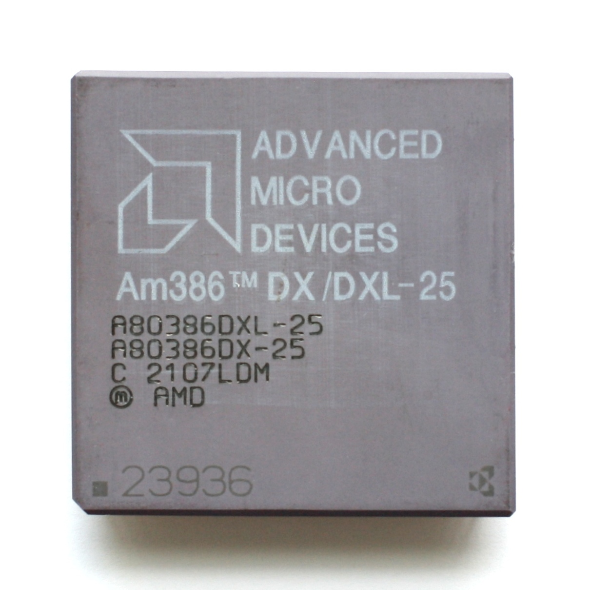 CPU AMD Am386DX PGA